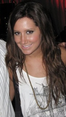 I took this picture in my first ever meeting Ashley Tisdale in April 2009.